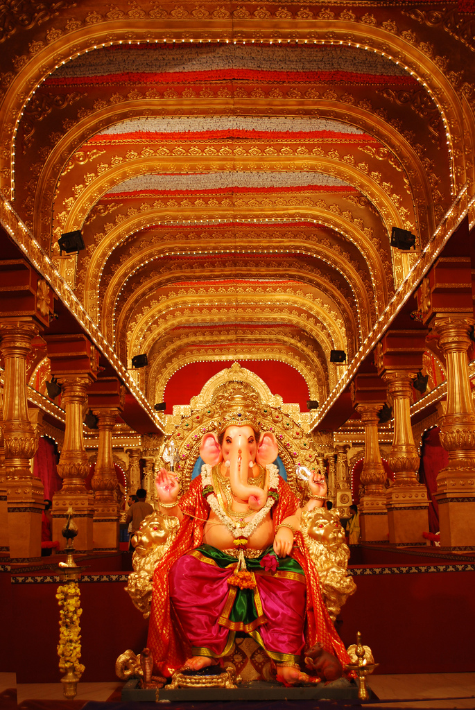 Deity of Lord Ganesha, Mangalore in a Navarari pandal